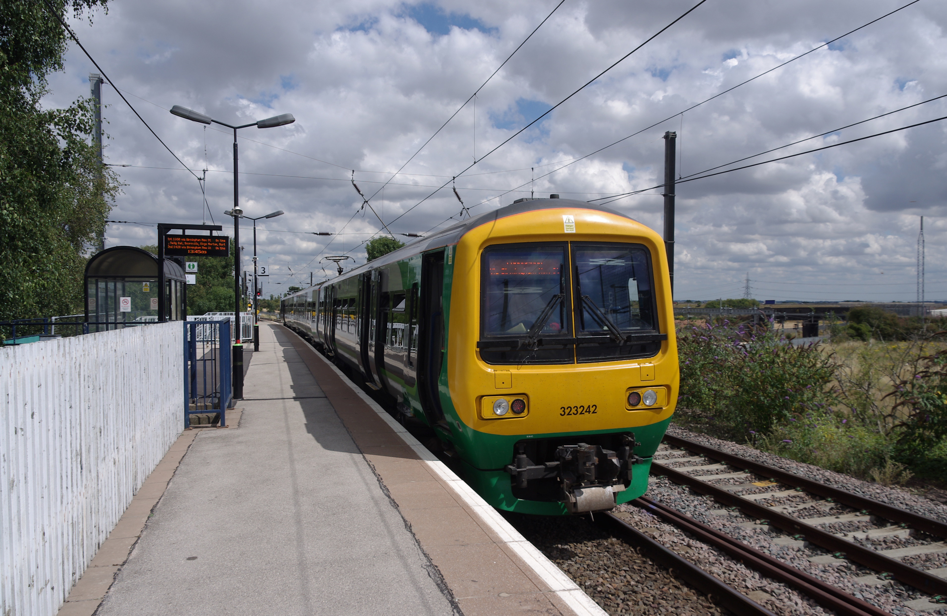 London Midland EMU 323242 stands at Lichfield Trent Valley railway station with a service to Longbridge.